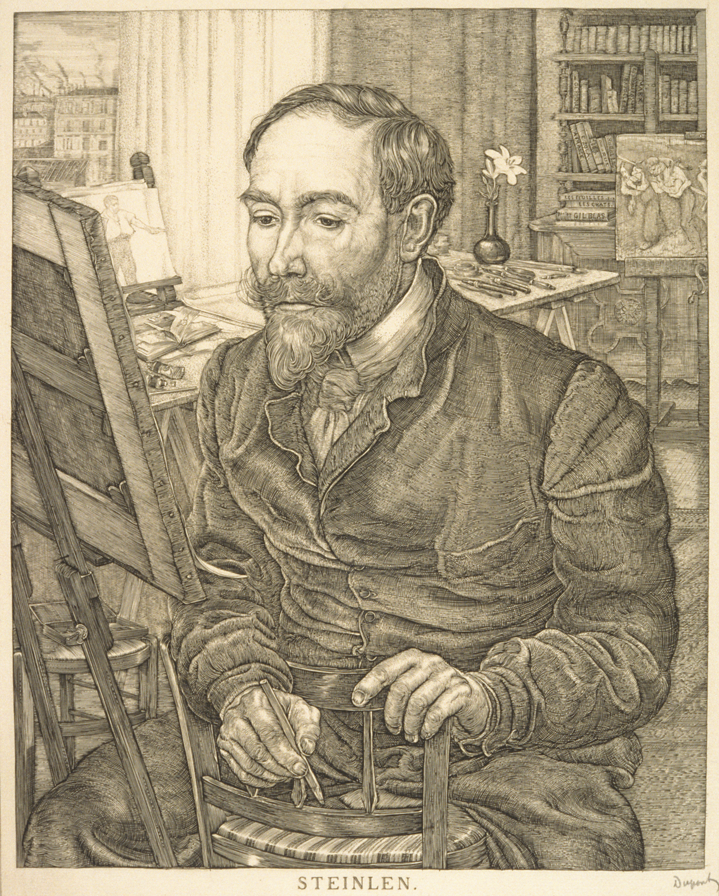 Line engraving of Théophile Alexandre Steinlen (1859-1923)